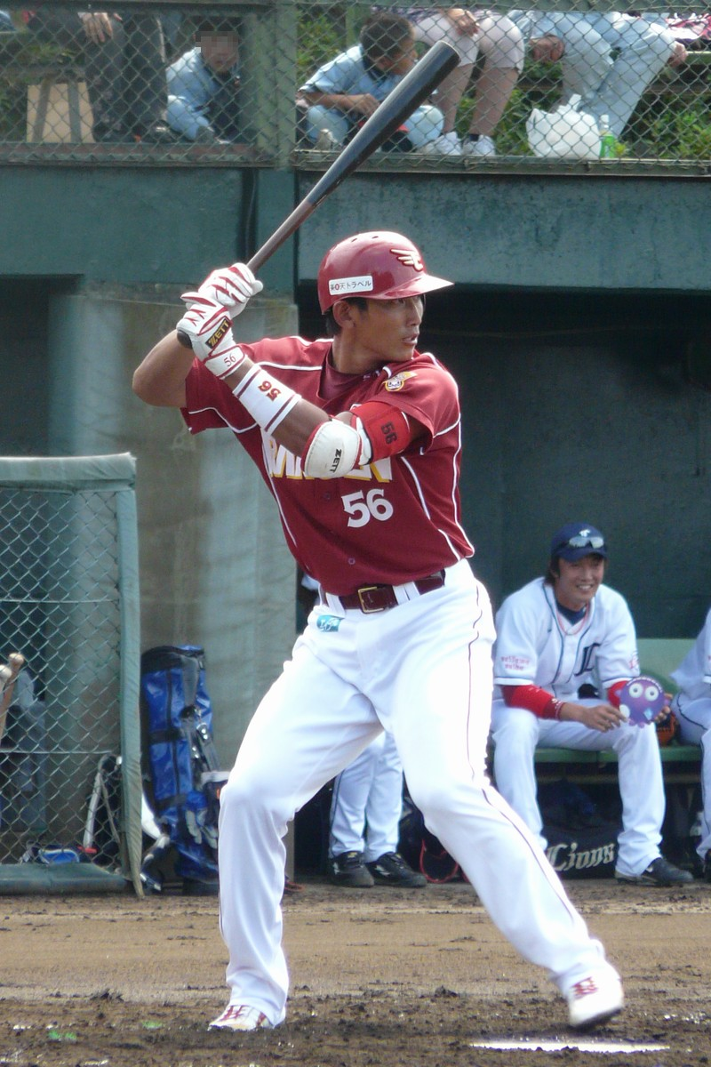 Taishi Nakagawa, infielder of the Tohoku Rakuten Golden Eagles, at Seibu Lions Baseball Ground 2.